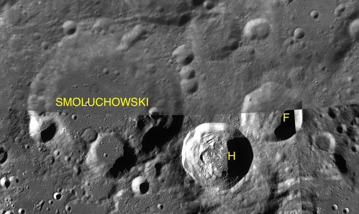 Part of the chart LAC-21 used for the presentation.